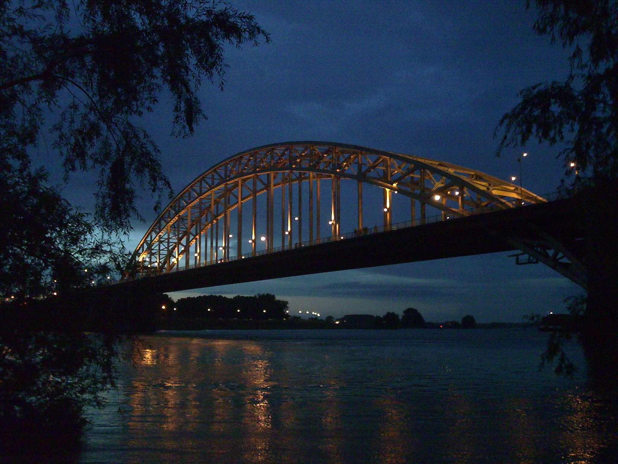 The "Waalbrug" bridge over Waal river in Nijmegen, as seen from the harbour.